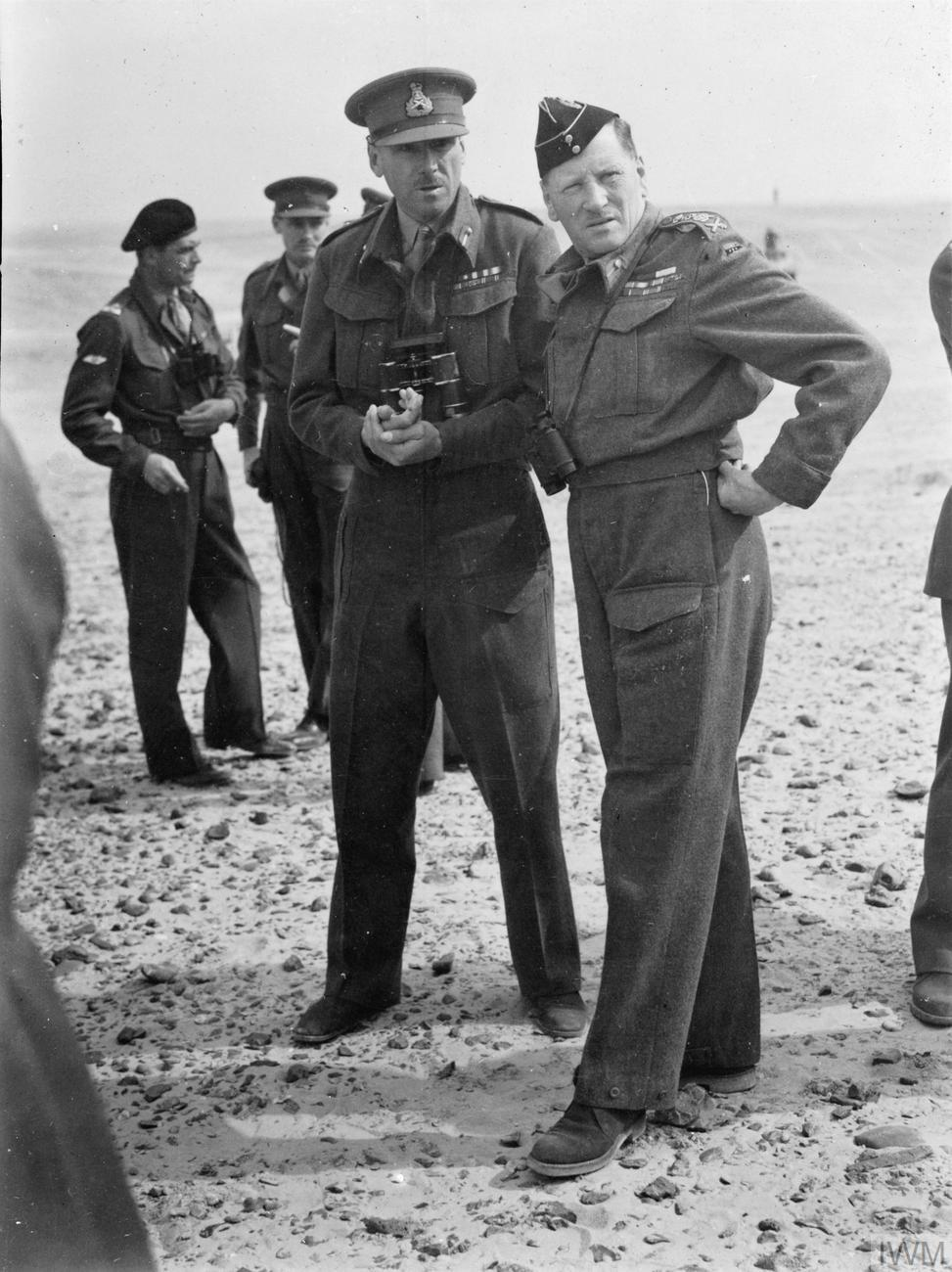 British Generals 1939-1945 Major General John "Jock" Campbell VC (1894 - 1942): Campbell and General Sir Claude Auchinleck, Commander in Chief, Middle East, in the Western Desert.